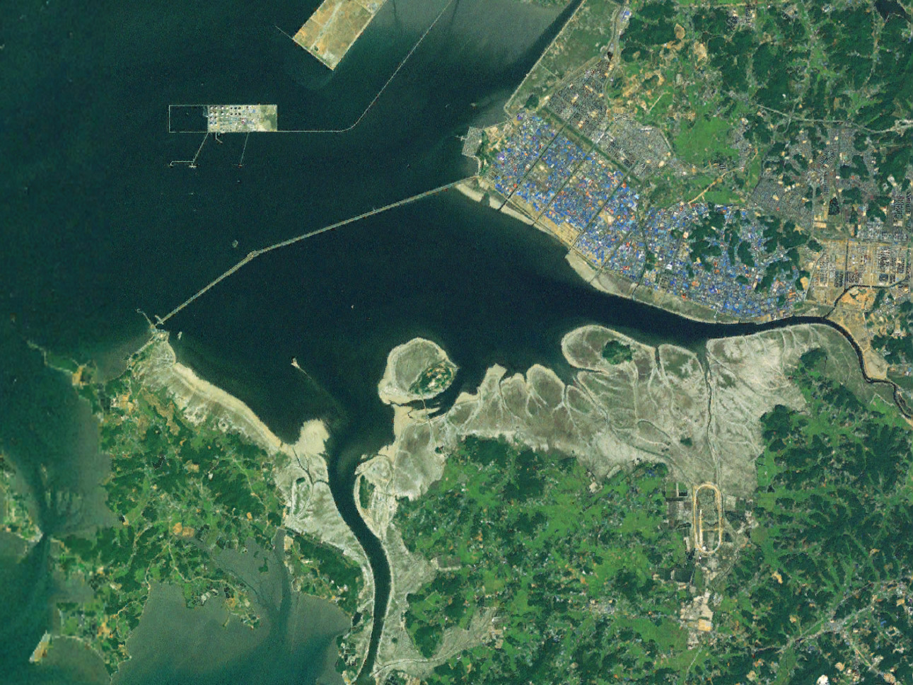 Sihwa Lake.